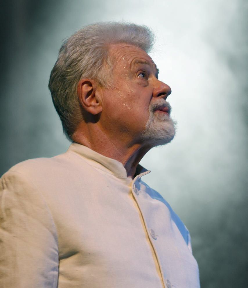 Roswell Rudd at Jazzfestival Frankfurt